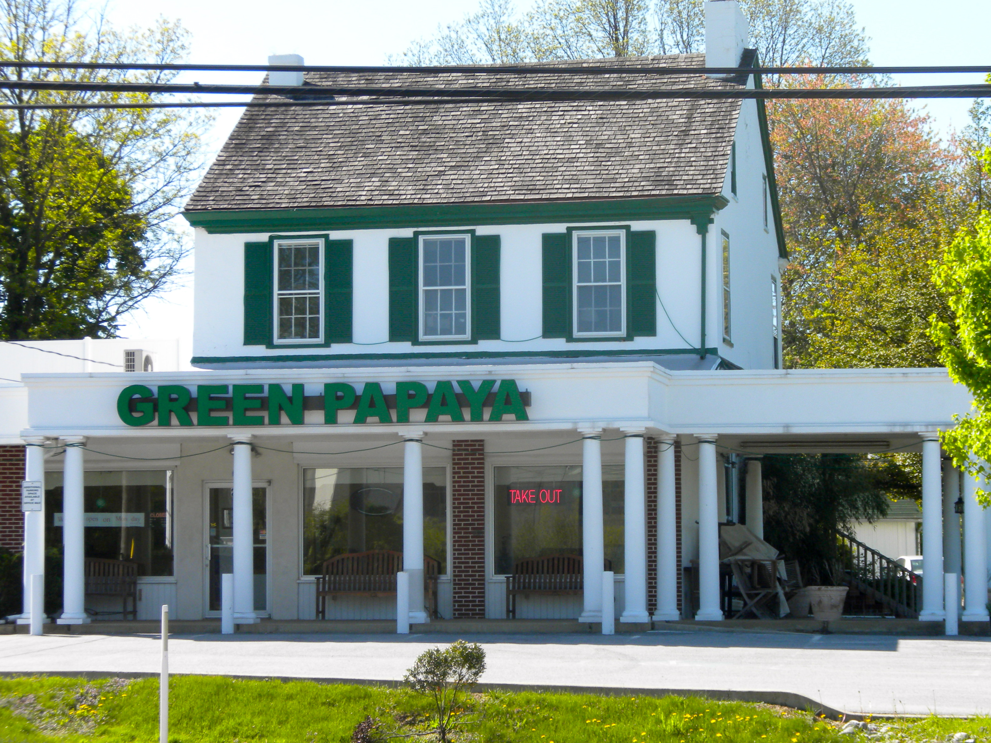 Jacob Zook House on the NRHP since February 24, 1995. At 290 East Lincoln Highway near Exton in West Whiteland Township, Chester County, PA across from the Exton Square shopping mall. In the shopping mall area is another older "Zook House" also on the NRHP. The porch of this house was removed before the NRHP listing and replaced by the more commercial walkway seen in this photo. It now houses the "Green Papaya" fast food restaurant.